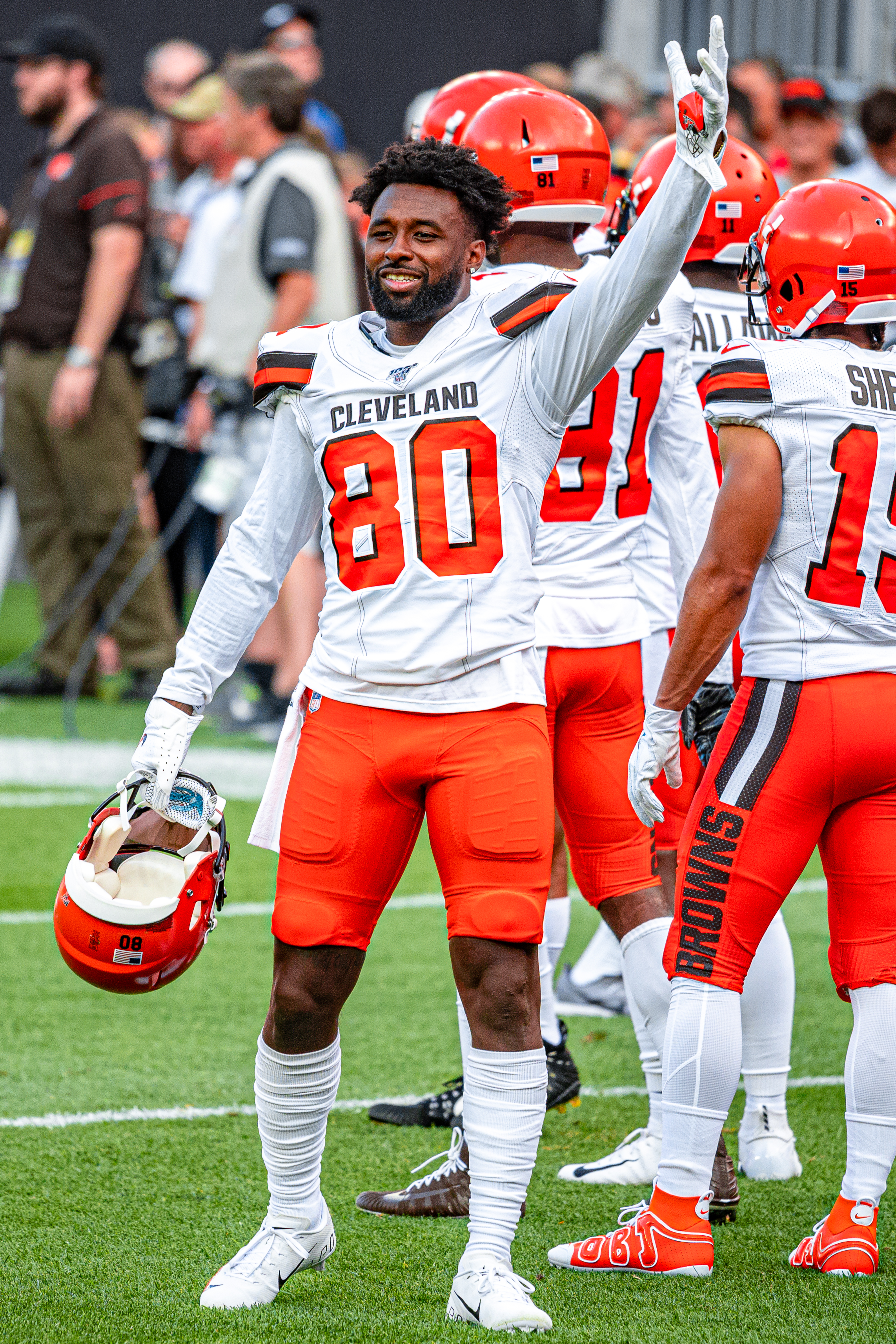 Cleveland Browns wide receiver, Jarvis Landry, during a preseason game against the Washington Redskins on August 8, 2019